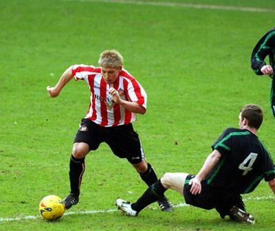 Martyn Waghorn playing for Sunderland AFC reserve team.